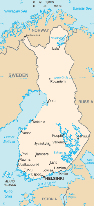 Map of Finland